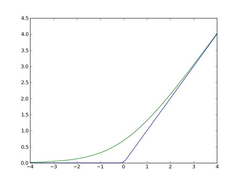 Plot of the rectifier and softplus functions near x=0.